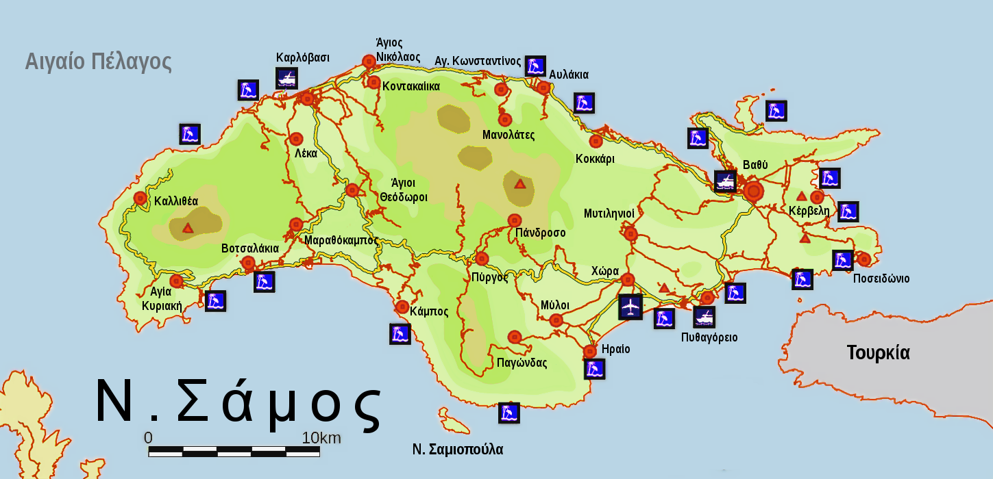 Island Samos map in Greek